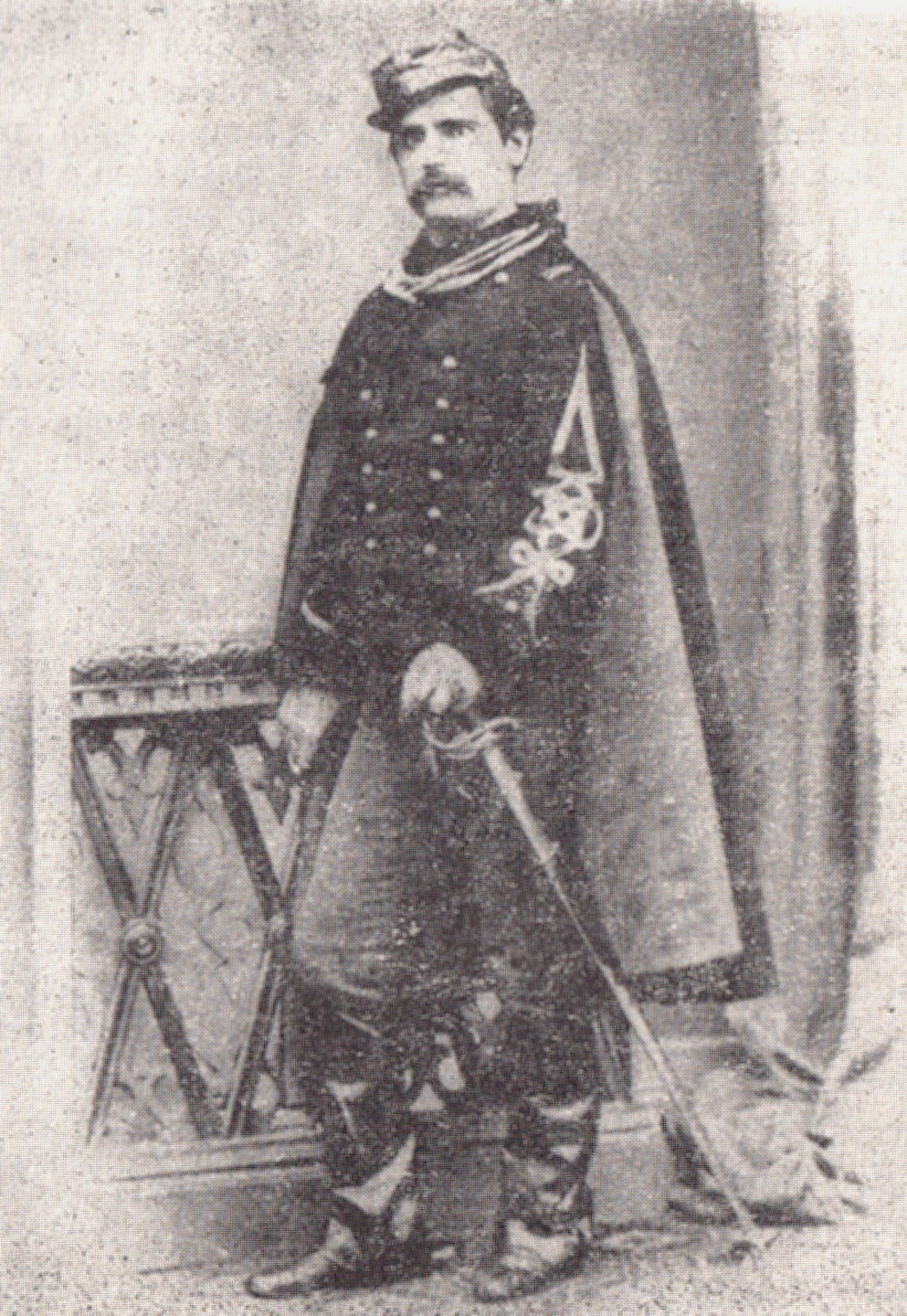 Poet, radical politician and political conspirator Alexandru Candiano-Popescu, wearing his Romanian Army Captain's uniform.